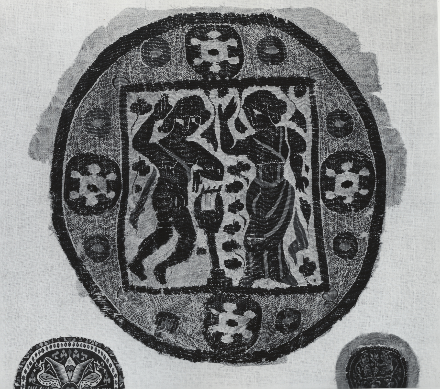 This tapestry roundel was likely one of a set that decorated a larger household textile, such as a curtain or wall hanging. Curtains and wall hangings were used in private homes, as well as in public and religious buildings, to prevent drafts, divide spaces, and provide privacy. The tapestry weave of this piece is ideal for such textiles, as it produces a design that can be viewed from either side. Though the majority of the population was Christian by this time, figures from classical mythology continued to decorate objects of daily use. Especially popular were portrayals of pairs of famous lovers. Here, the attribute of the lyre identifies the male figure as either Orpheus or Apollo, indicating that the female must be either Eurydice (Orpheus's wife) or the nymph Daphne (loved by Apollo), or perhaps one of the nine Muses, frequently associated with Apollo.